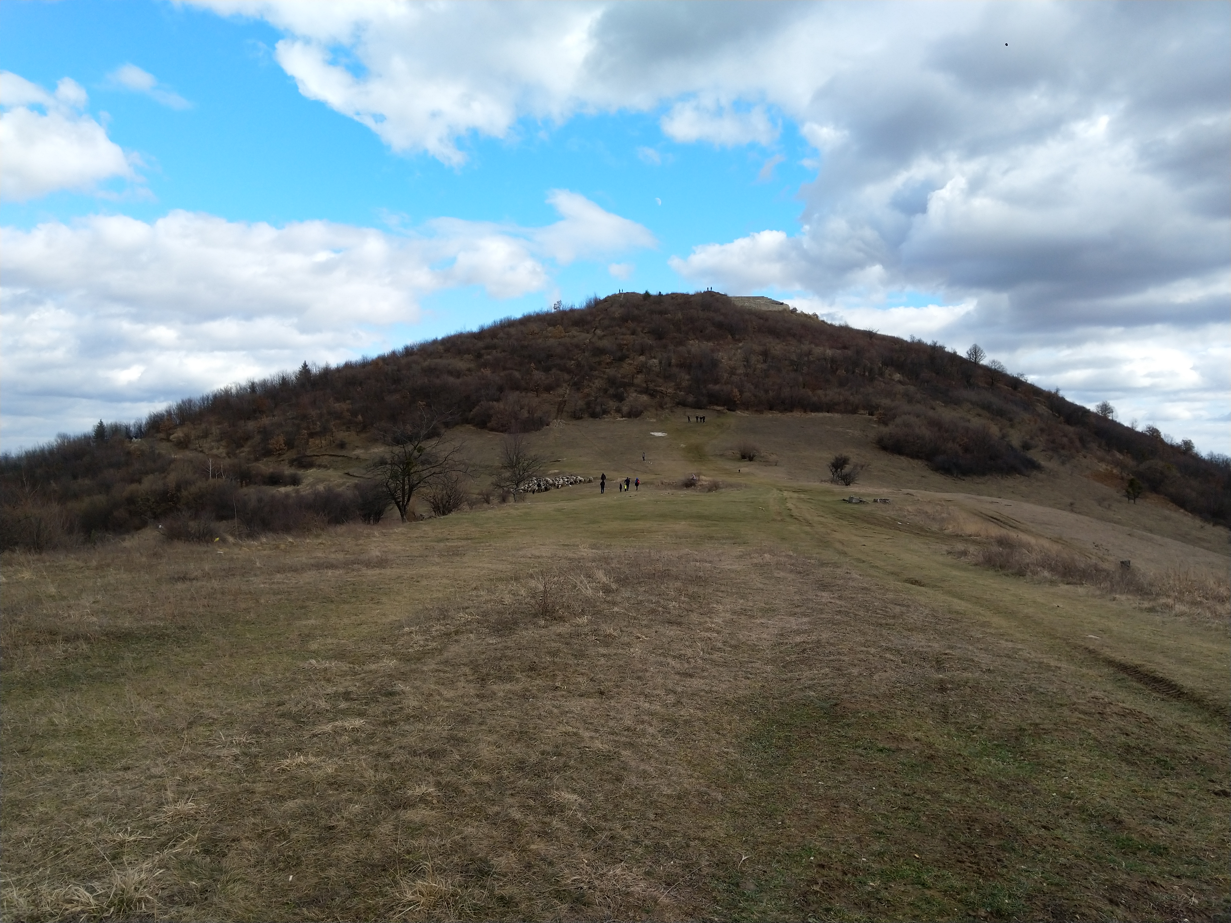 Plateu leading to the Old town of Visoki